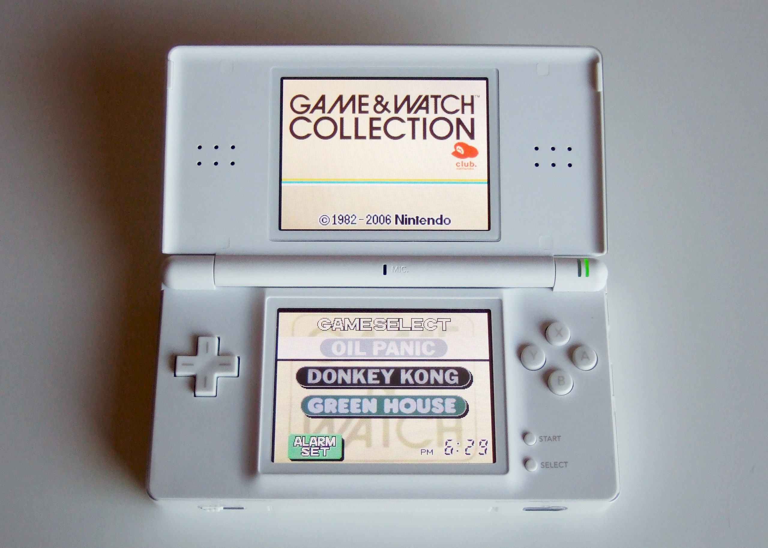 I took these shots for a blog post I wrote about the Game & Watch Collection